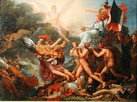 Liberty Traveling the World